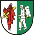 Coat of Arms of Thalwenden